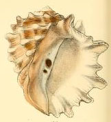 Genus Purpura, Plate II. Purpura neritoidea, Purpura neritoides Lamarck, Nerita nodosa Linnaeus, synonym of Thais (Thais) nodosa[1]